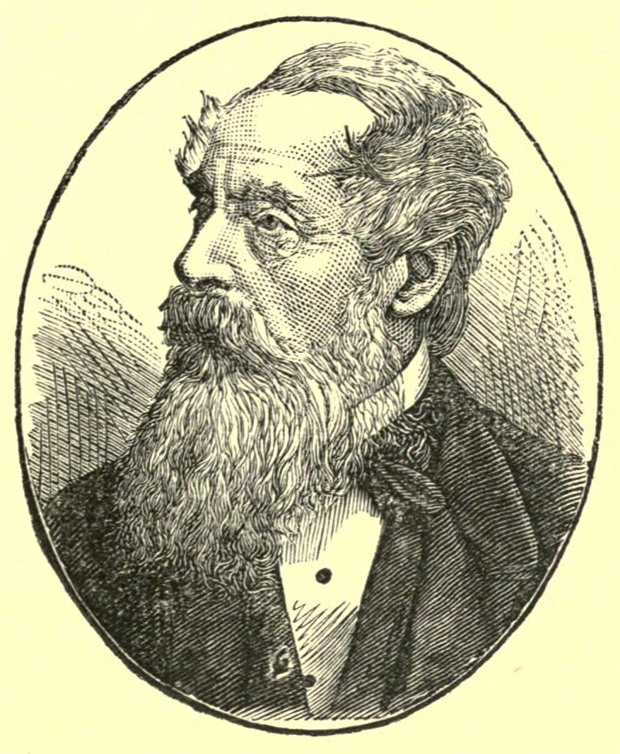 Engraved portrait of William Henry Giles Kingston (1814–1880).